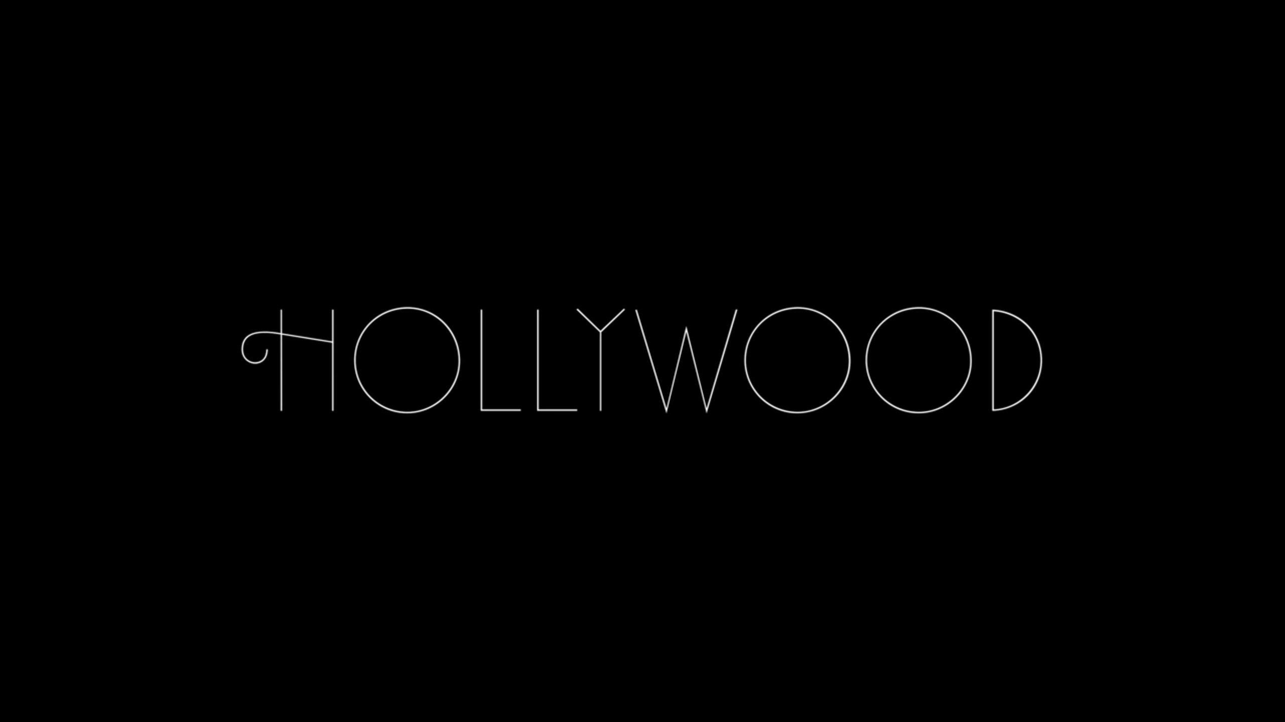 Logo for the American web television miniseries Hollywood